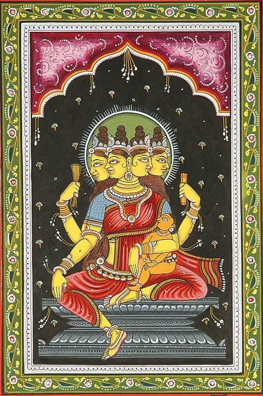 Brahmani matrika. From a series of postcards «108 forms of Parvati-devi».